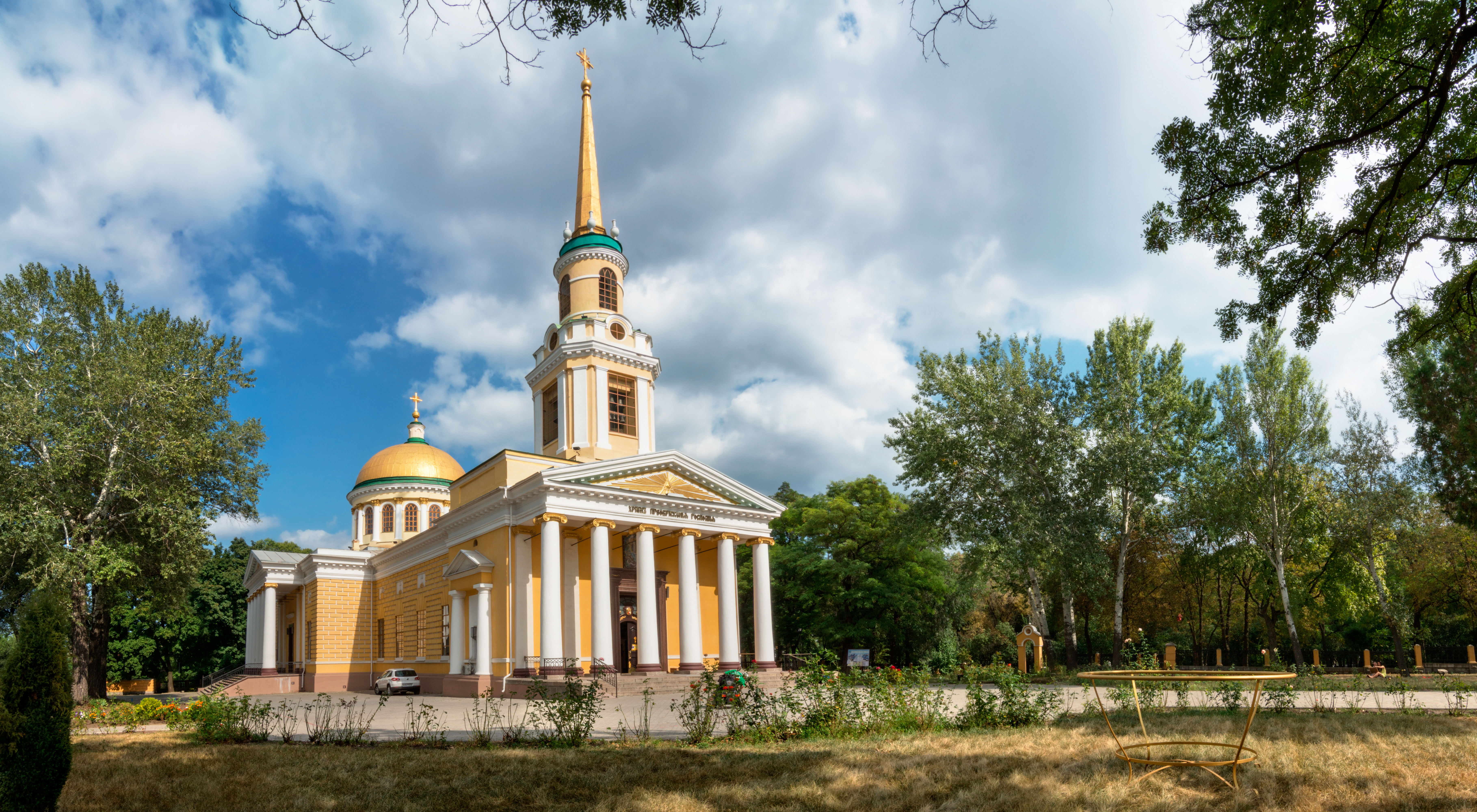 The Saviour's Transfiguration Cathedral, Dnipropetrovsk, Ukraine